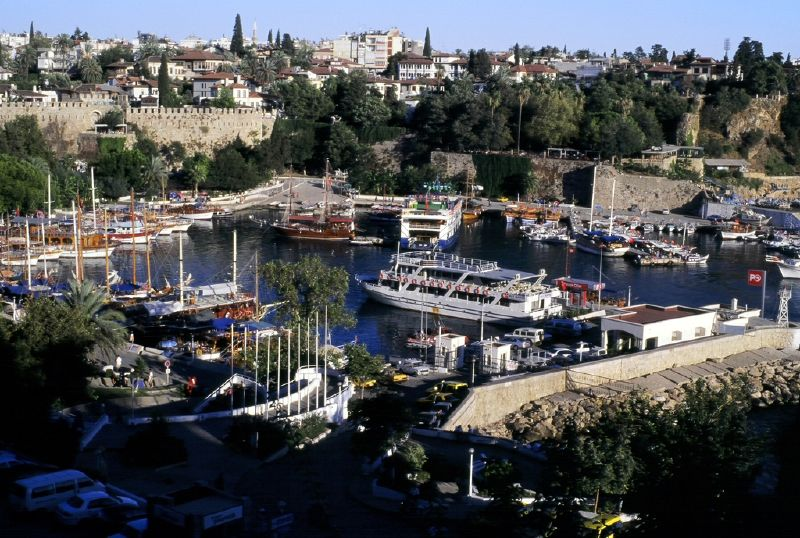 Harbor of Antalya, Turkey.